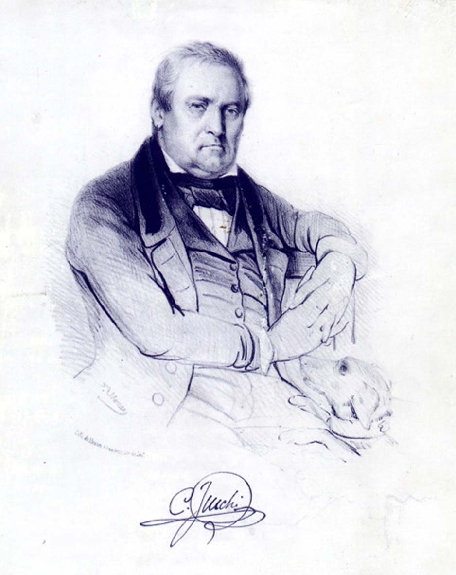 Pencil sketch of the neoclassical italian architect Carlo Zucchi (1789 - 1849).